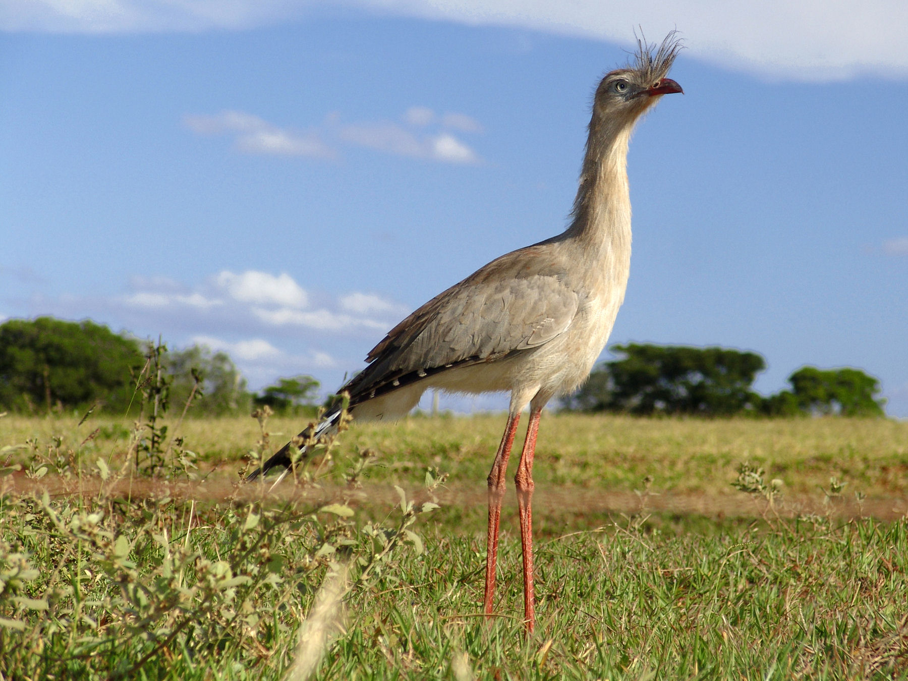 A Red-legged Seriema near Avaré, Brasil.